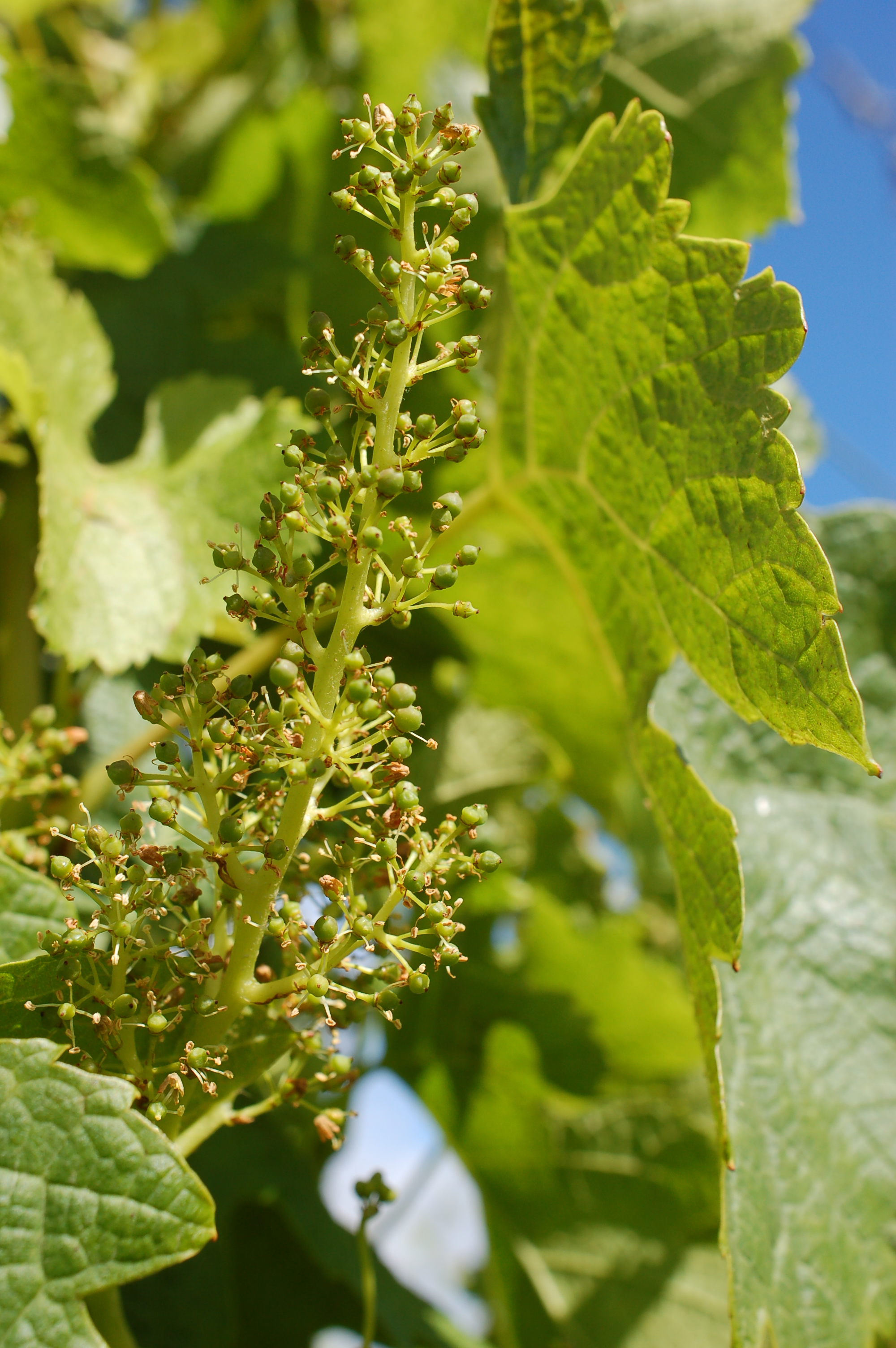 Taken at Stefano Lubiana Wines Granton Vineyard Tasmania 2010